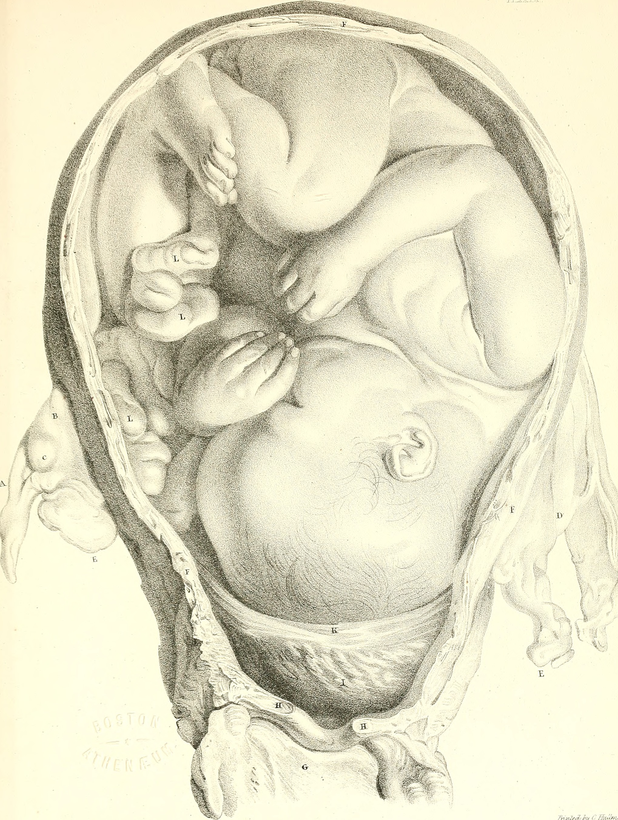 Title: The principles and practice of obstetric medicine : in a series of systematic dissertations on midwifery, and on the diseases of women and children, illustrated by numerous plates Year: 1836 (1830s) Authors: Davis, David Daniel, 1777-1841 Subjects: Obstetrics Women Obstetrics Female Urogenital Diseases Publisher: London : Printed for Taylor and Walton Text Appearing Before Image: ~%i.:,-^-.*\ i^JFa^rl^nnjl SSiiy. J^TJnit^ hu C. JfiAj/mT/oun/cLeL. li3WV^ n.xxjx.. Text Appearing After Image: Jhnlr^/^if C Bii^nmidtJA 7r. liliAiiTTb Zci^wa. / / ?; (v^v^ PLEXX. Jlq I Fta .